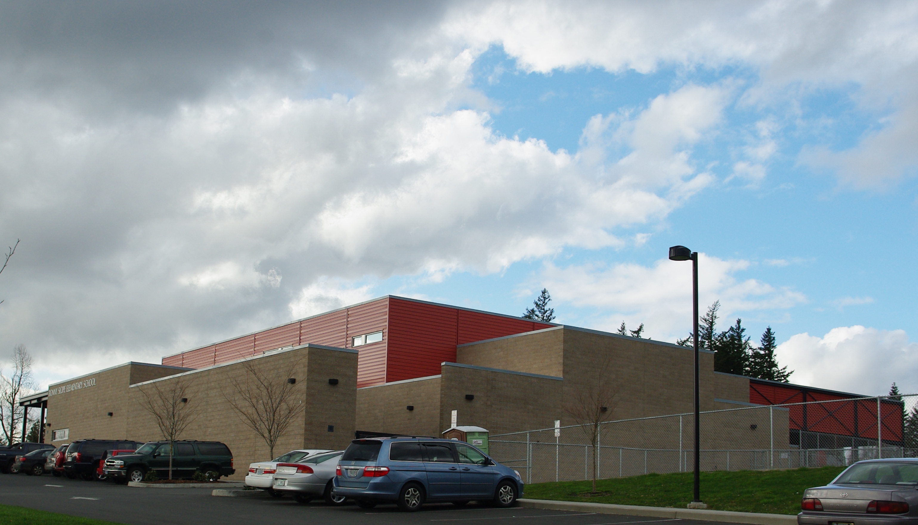 Bonny Slope Elementary in the Bonny Slope, Oregon, area. School is part of the Beaverton School District.